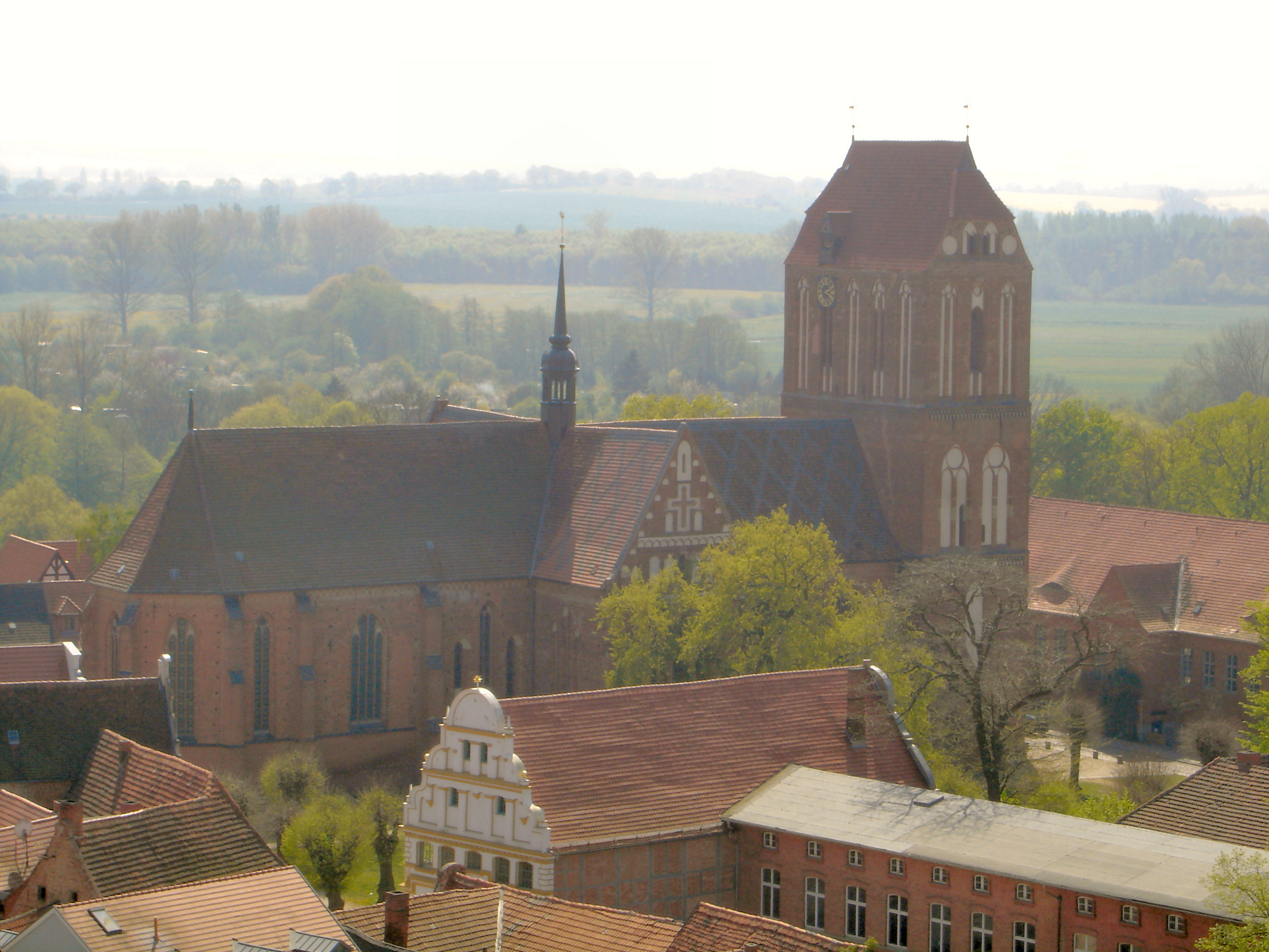 Dom Güstrow / cathedral in Güstrow